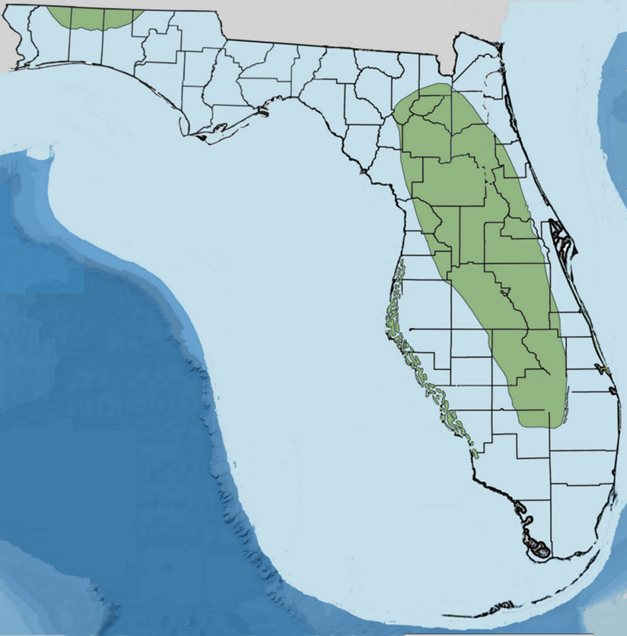 Depiction of Florida during the Rupelian of the Early Oligocene (33.9 to 28.4 million years ago). Displays Hillsborough Lagoon system and Caloosahatchee Lagoon system. Note: Name should be Oligocene and not Miocene.